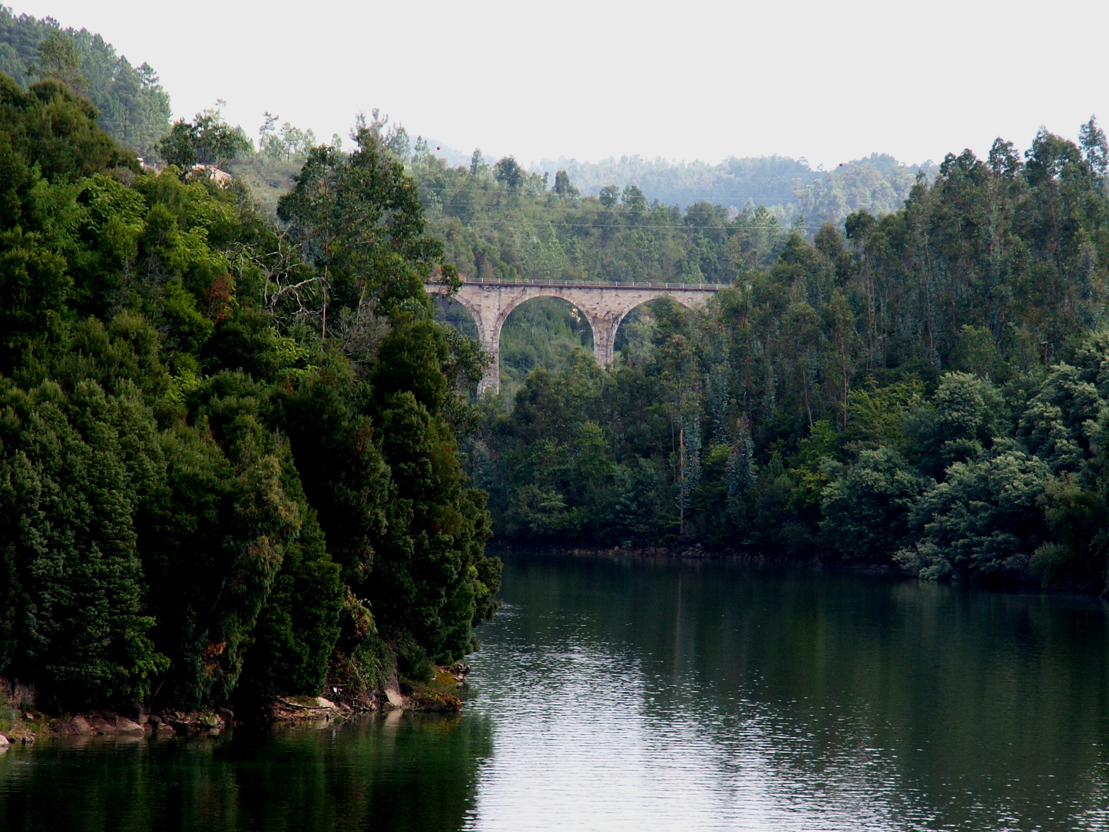 Crossing the bridge to Marco de Canaveses II